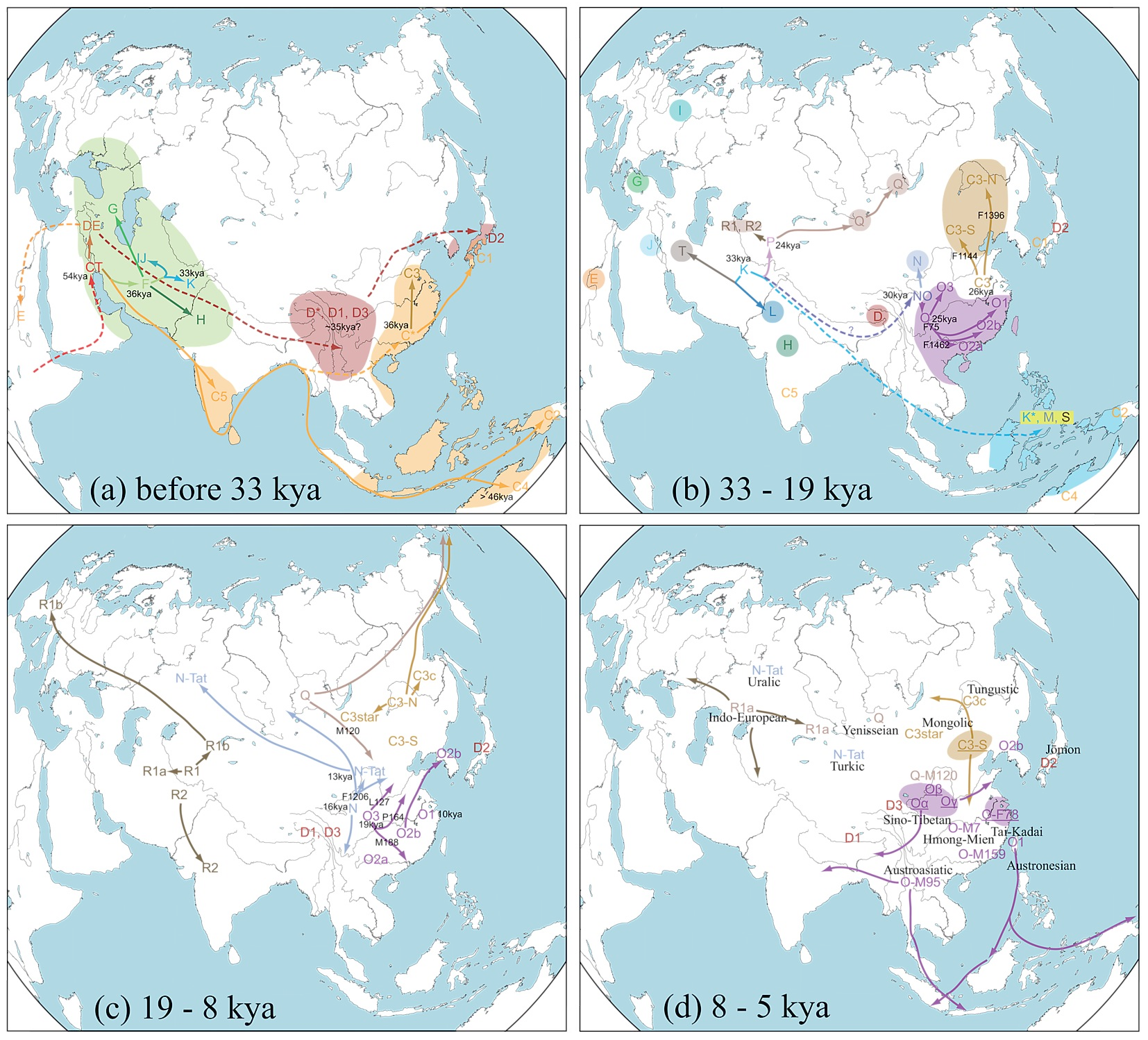 Revised migration routes of modern human. (a) Split of the first out-of-Africa ancestor and early migration in Asia. (b) The emergence of the main haplogroups before and during the LGM. (c) Foundation of present haplogroup distribution before 8 kya. (d) Major population expansion events in East Asia (shaded) in the Neolithic Age and their probable relationship with modern language families.